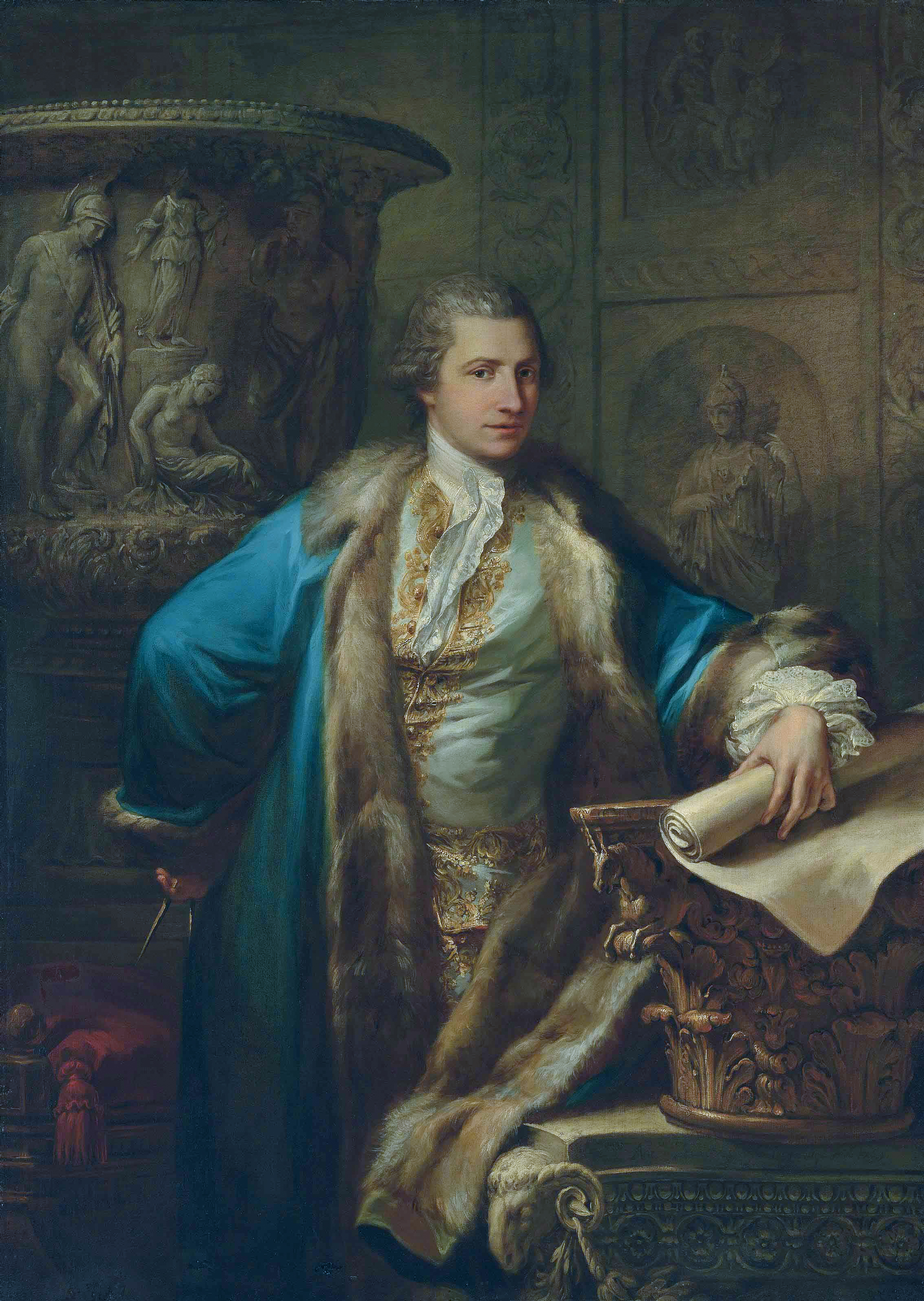 James Adam (1732-1794)